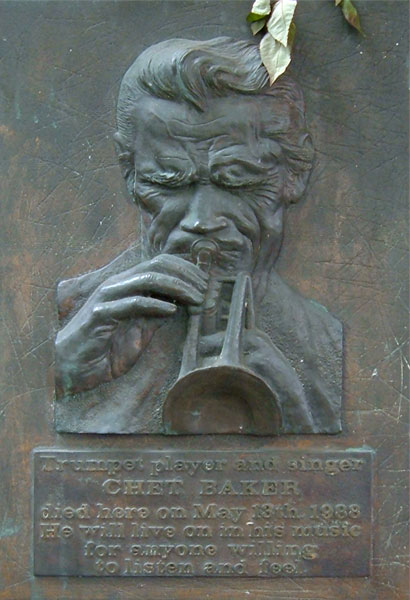 Plaque made by artist Roman Zhuk (source) on the facade of hotel Prins Hendrik in Amsterdam. Photograph by Jeroen Coert.